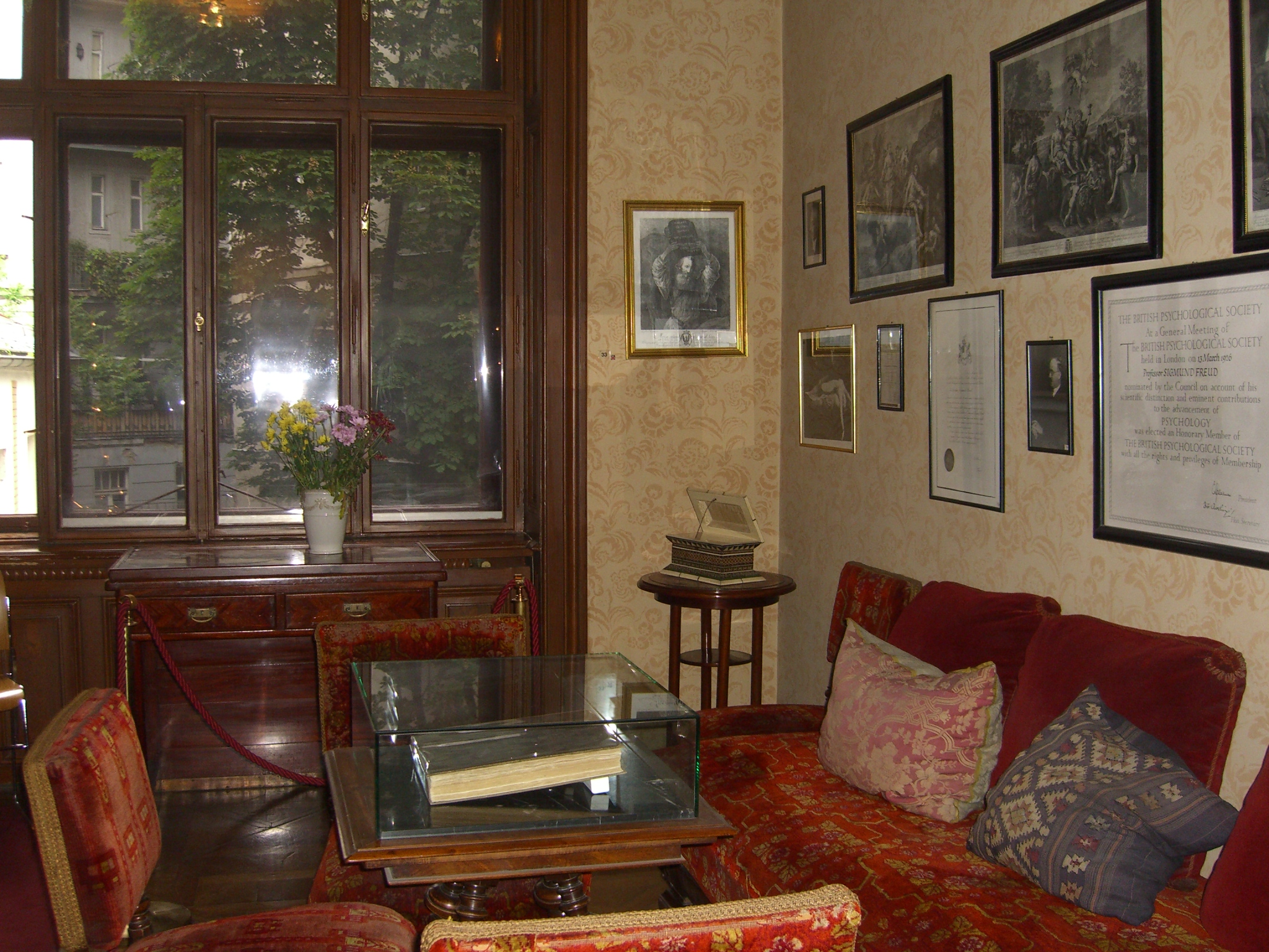 Waiting room in the former living quarters and office of Sigmund Freud, Berggasse 19, Vienna